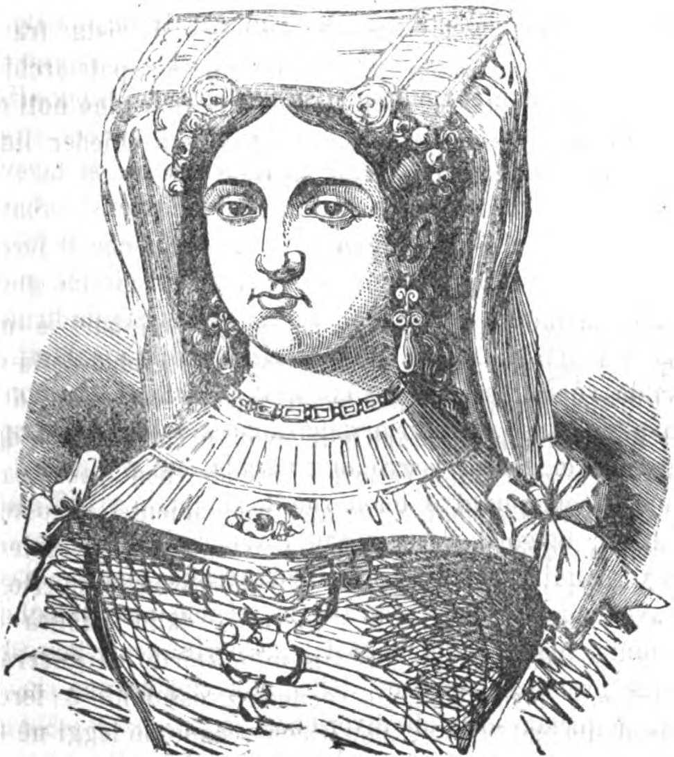 Marozia, pencil drawing by Franco Mistrali, I Misteri del Vaticano o la Roma dei Papi (The misteries of Vaticano or the Rome of Popes), vol.1, 1861